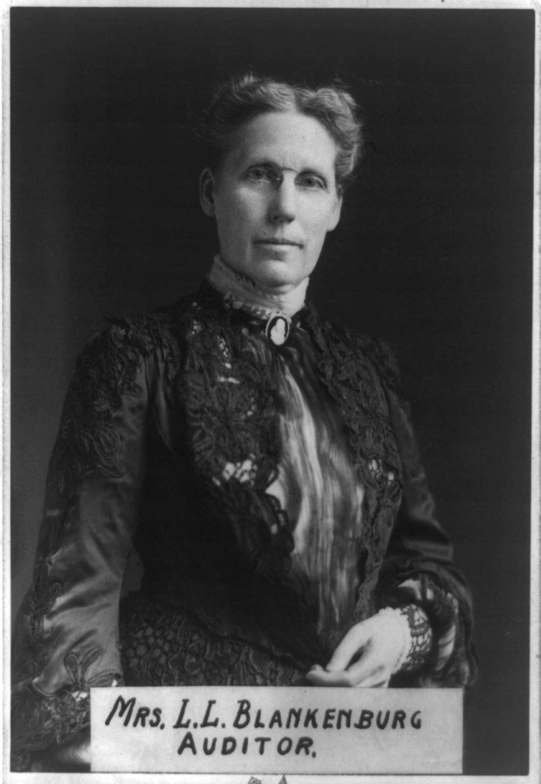 Title: Mrs. Rudolph Blankenburg, half-length portrait, facing right Abstract/medium: 1 photographic print.